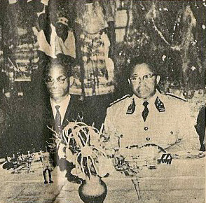 Albert Kalonji and Joseph Kasa-Vubu at a banquet